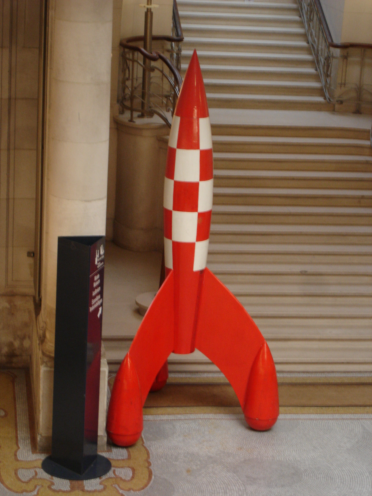 the rocket of Tintin at the Belgian Comic Strip Center